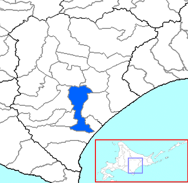 The location of Makubetsu in Tokachi Subprefecture, Hokkaido Prefecture, Japan.